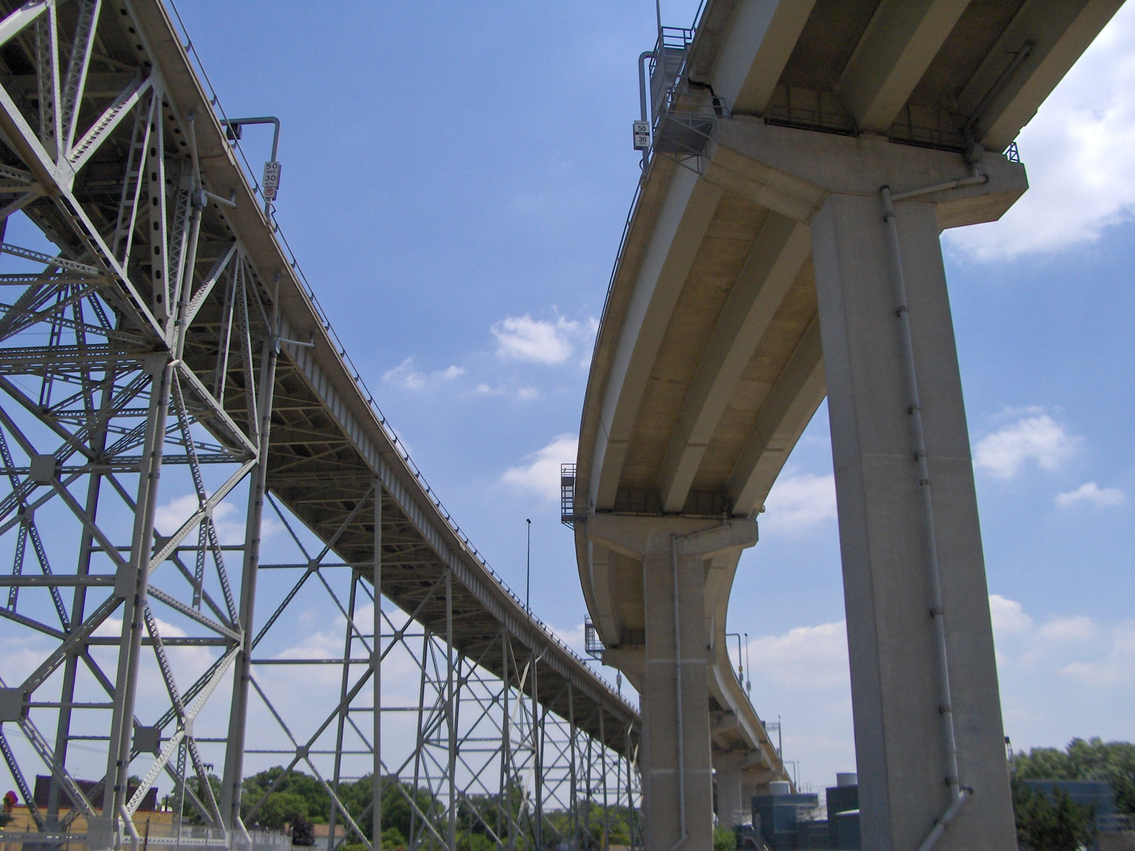 Connecting Sarnia, Ontario to Port Huron, Michigan